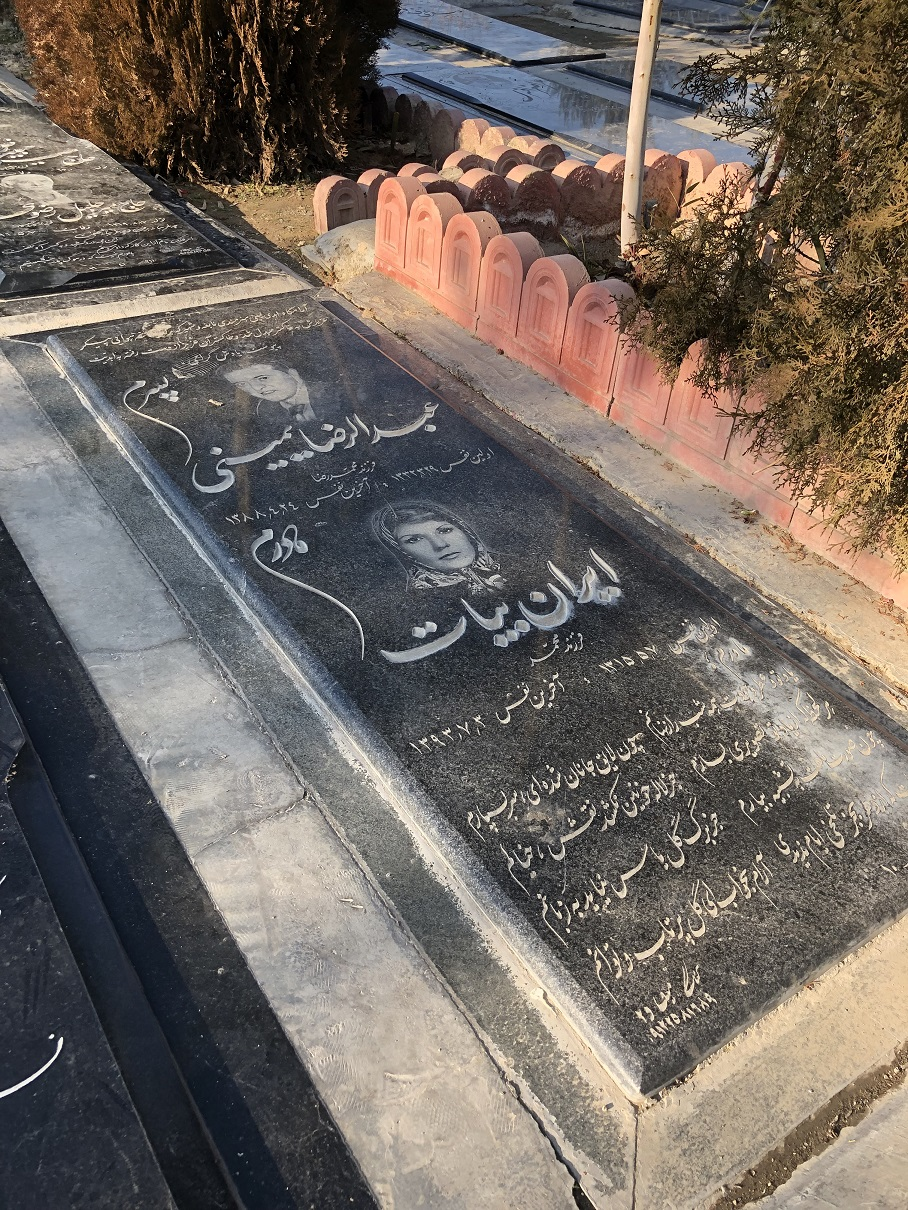 Behesht Zahra